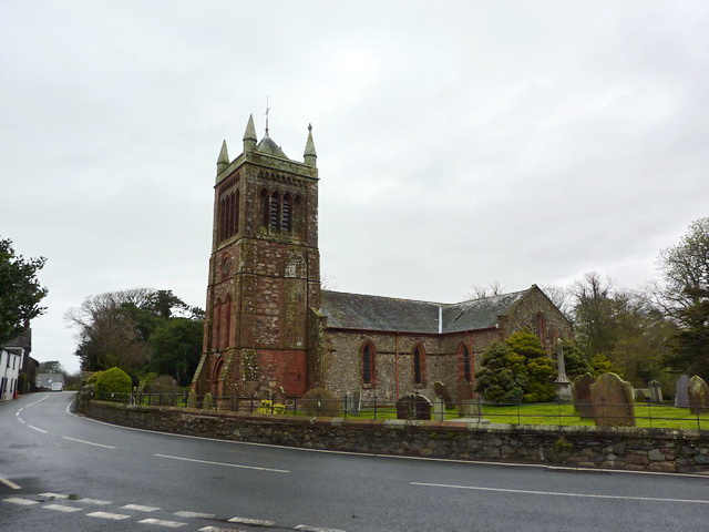 Photograph of St Michael's Church, Bootle